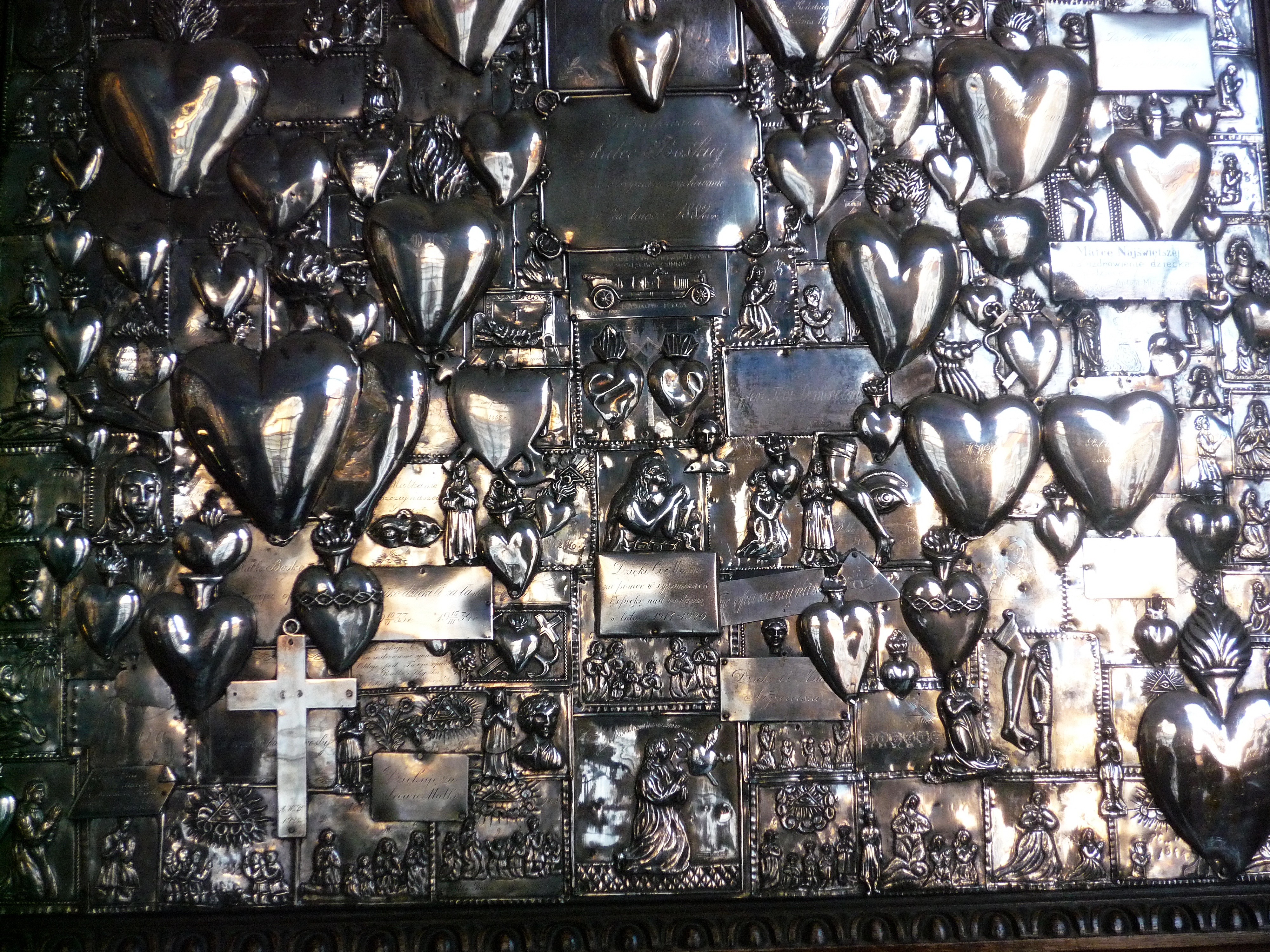 Gate of Dawn, Vilnius - a silver wall piece